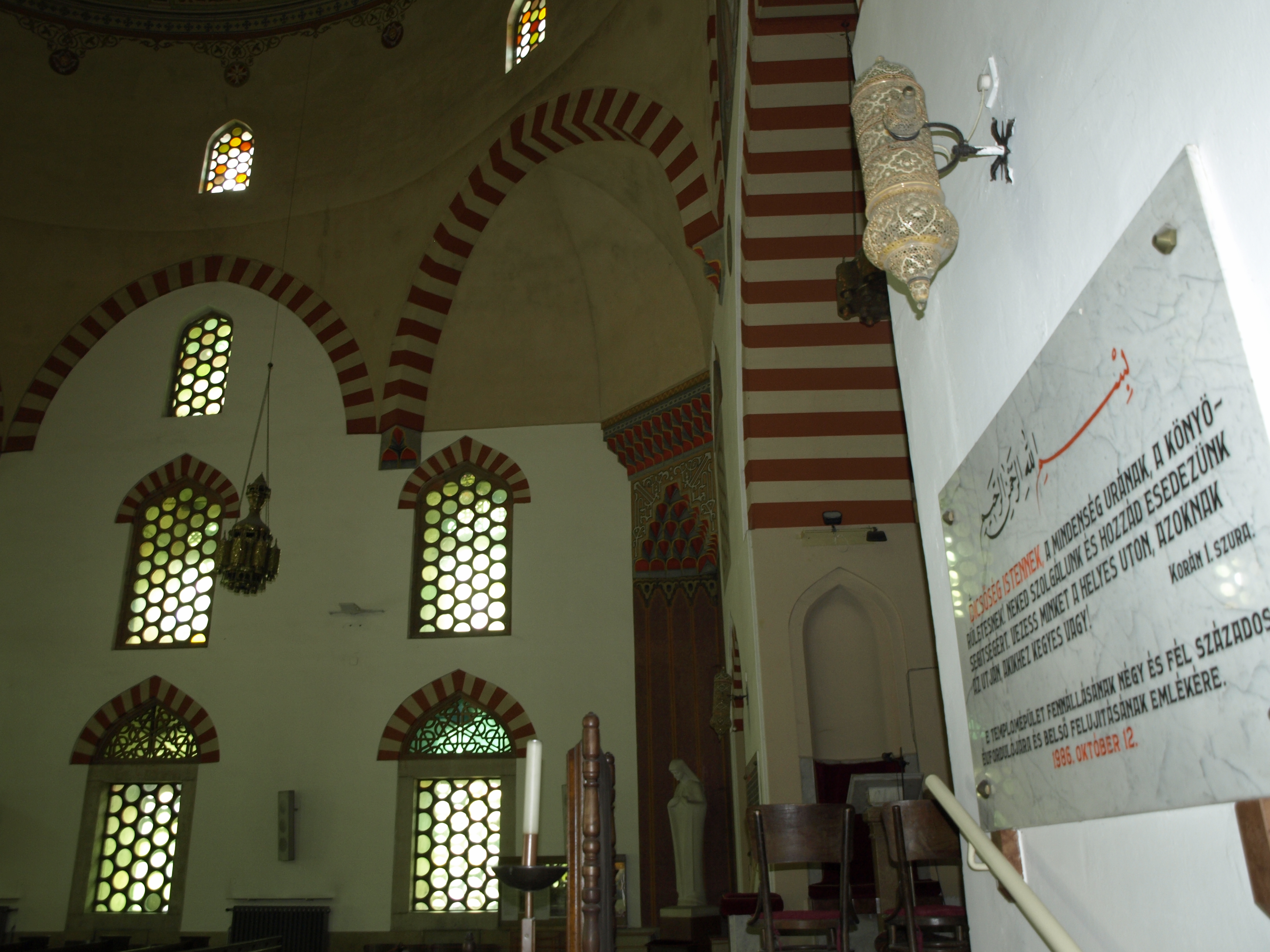 Mosque of Gazi Kasim Pasha-interno